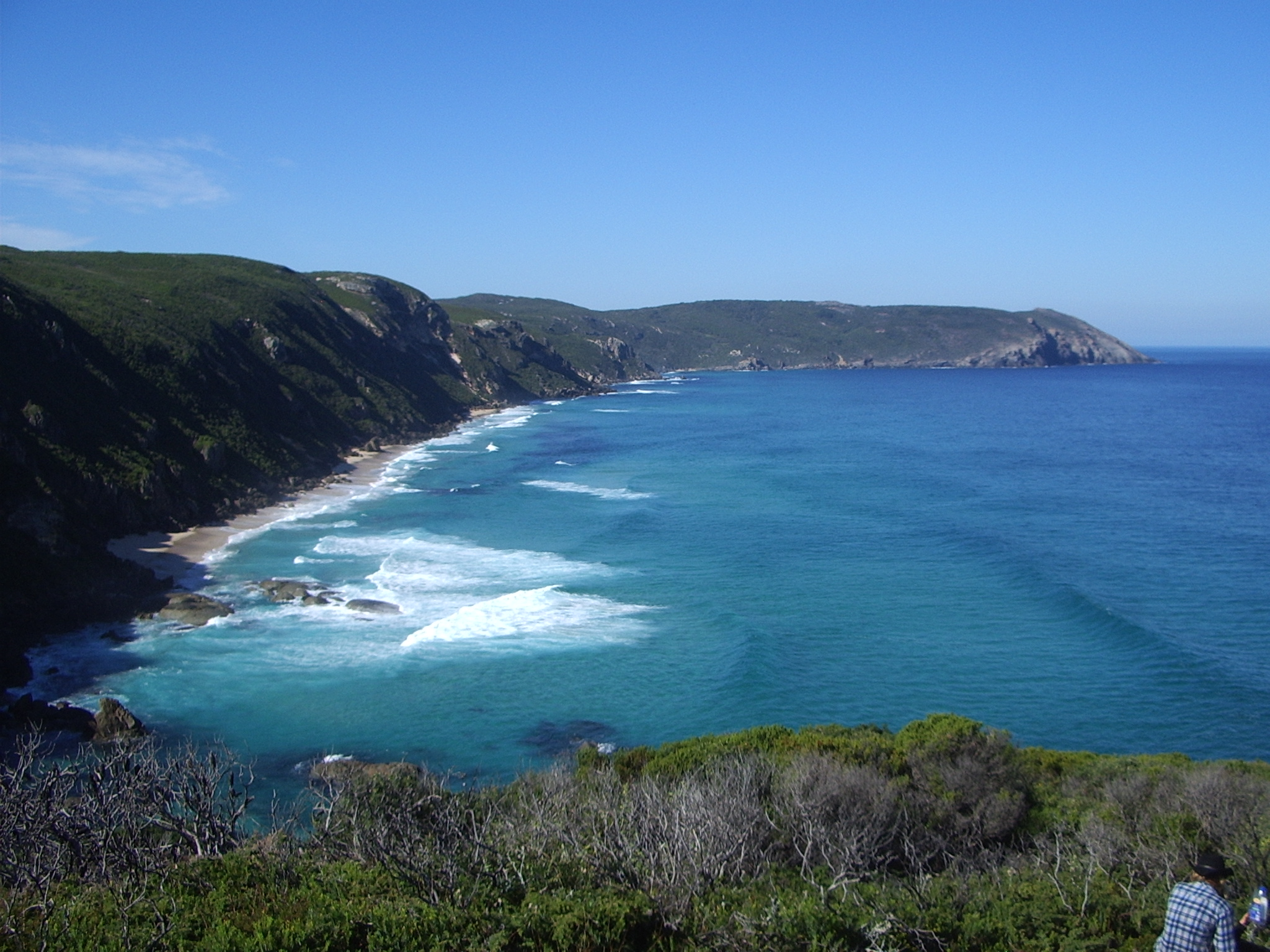 Beach in D'Entrecasteaux National Park